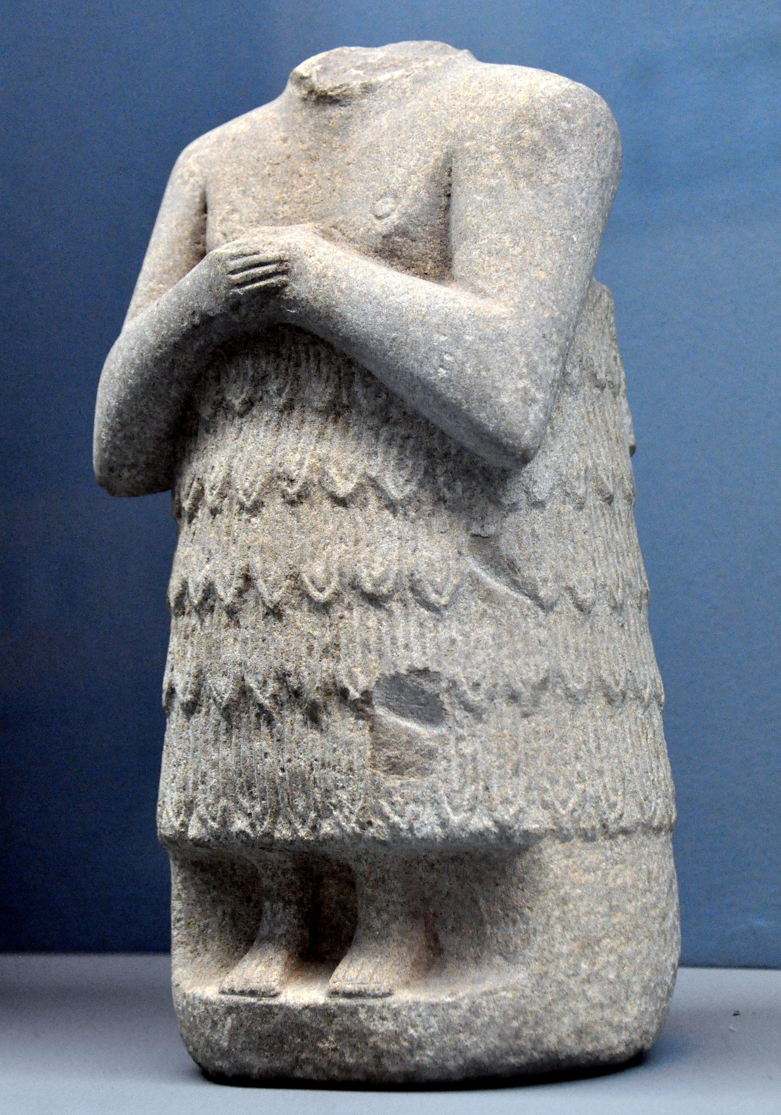 Headless votive statue. From Adab (Bismaya), Iraq. Early Dynastic Period, 2800-2350 BCE. On display at the Ancient Orient Museum, Istanbul, Turkey.